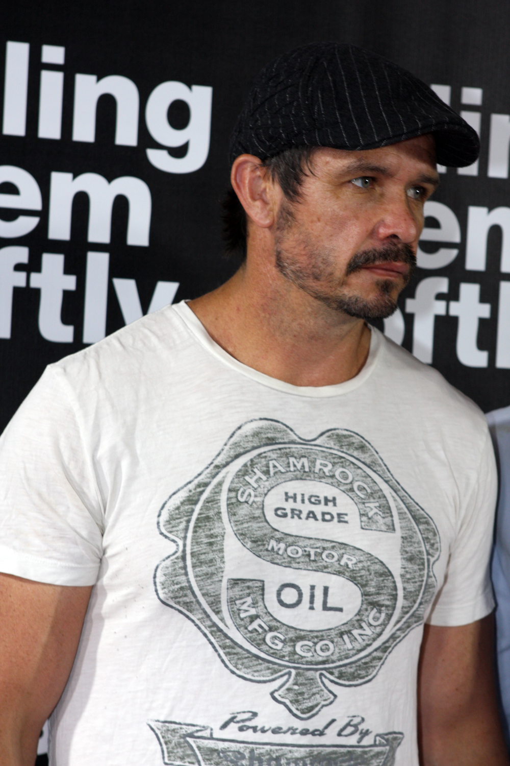 Matthew Nable, 'Killing Them Softly' Australian movie premiere at Dendy Opera Quays